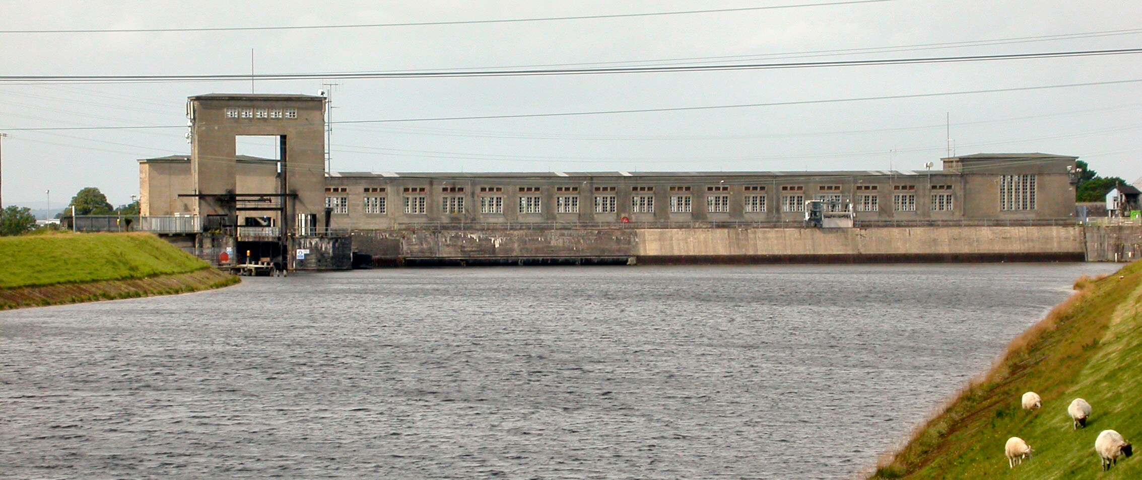 Staisiun Cumhachta Hidrileictreachais Ard na Croise